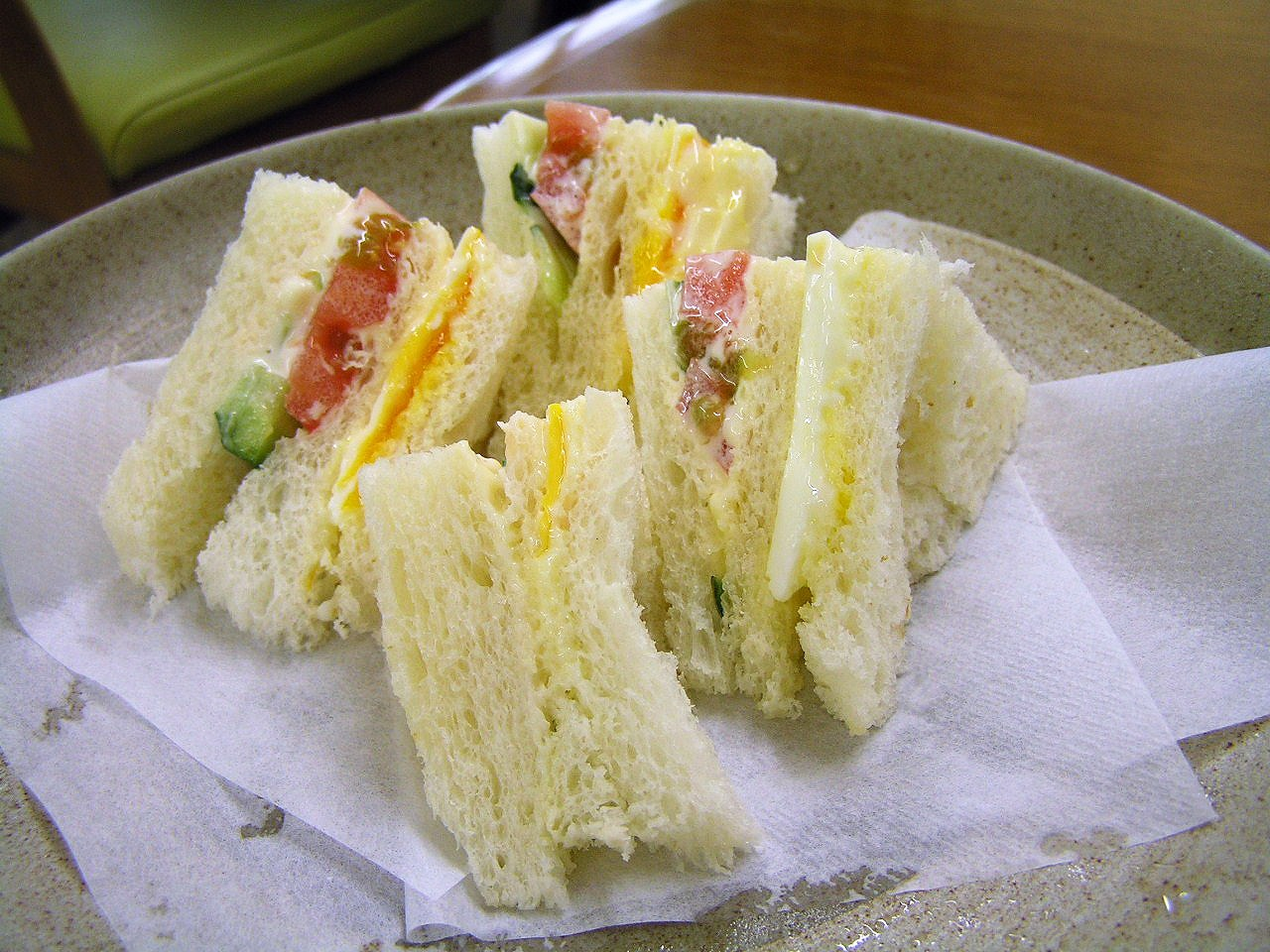 Sandwich